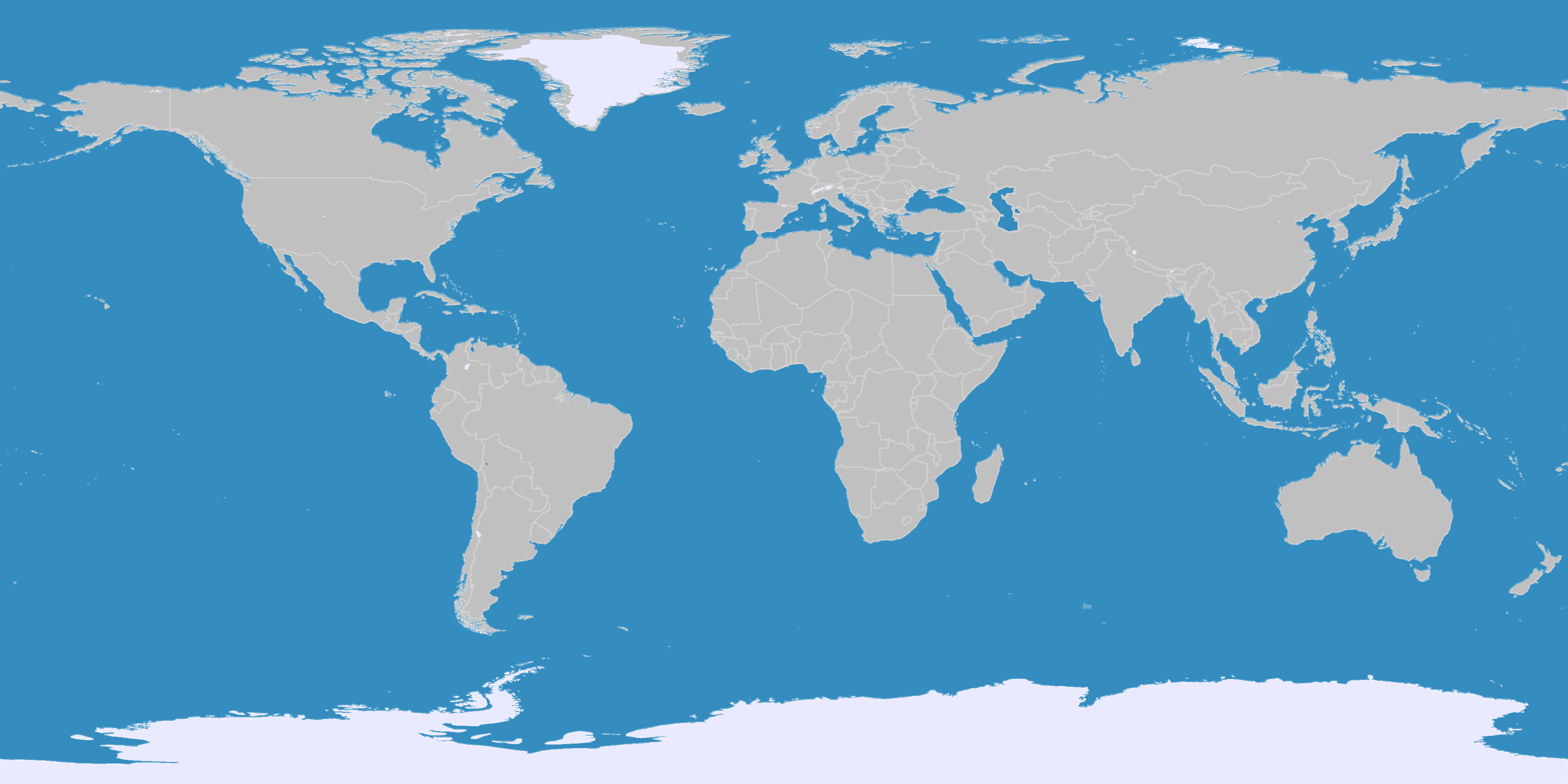 This map shows the Earth zones with an ice cap polar climate.